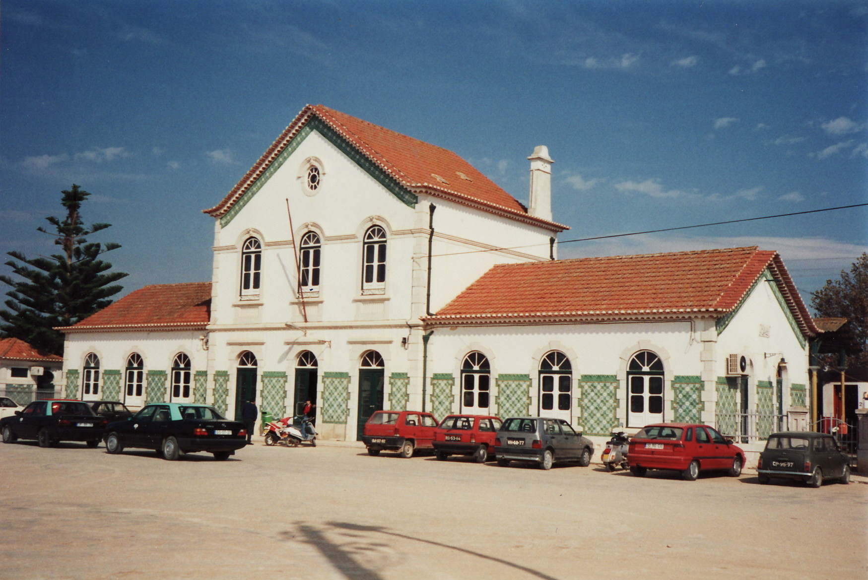 Old Lagos train station, Portugal